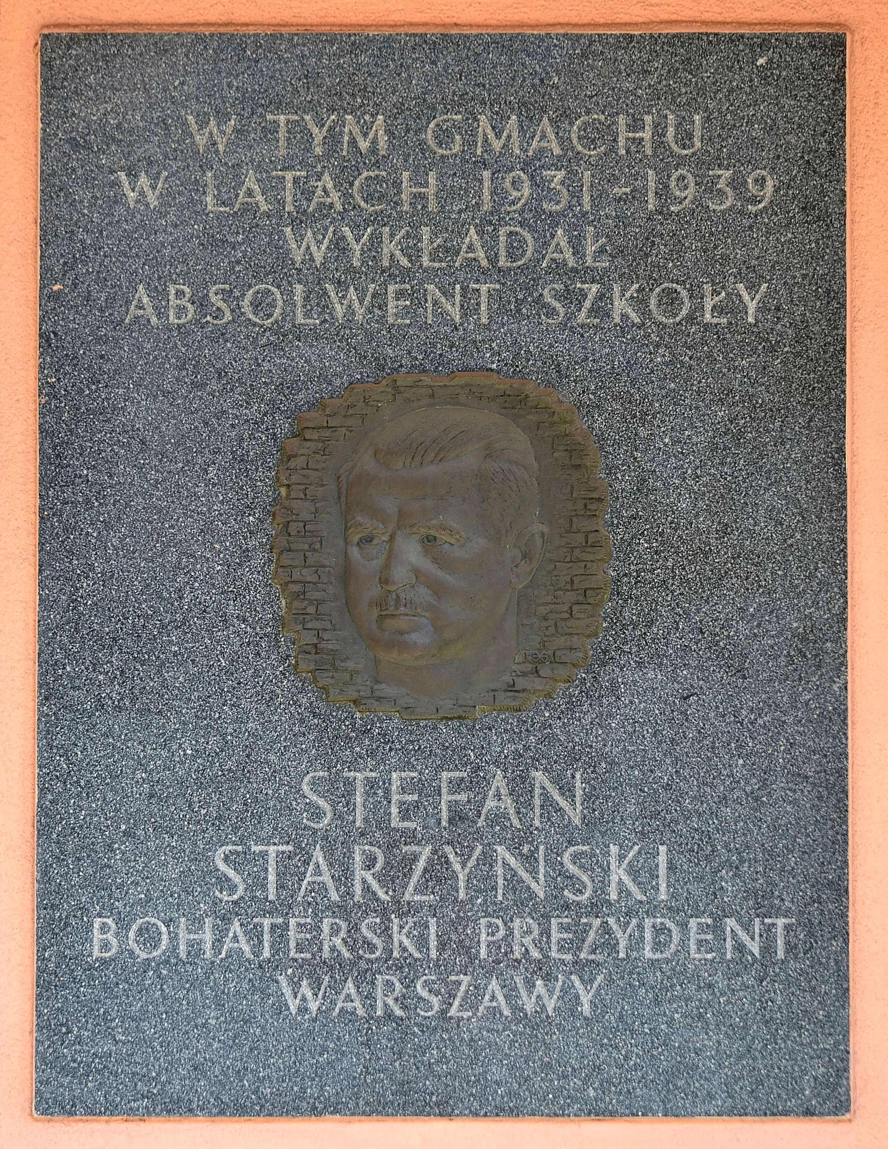 Plaque in memory of Stefan Starzyński on the facade of "A" building of the Warsaw School of Economics at 24 Rakowiecka Street in Warsaw